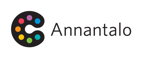 Logo of Annantalo, an art centre in Helsinki, Finland